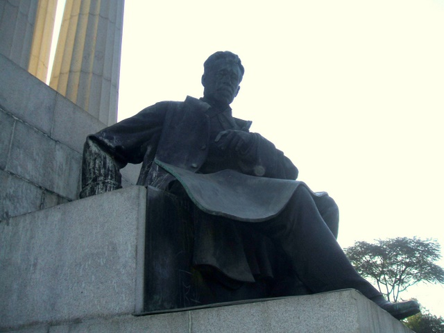 Monument to Ramos de Azevedo, in São Paulo, Brazil